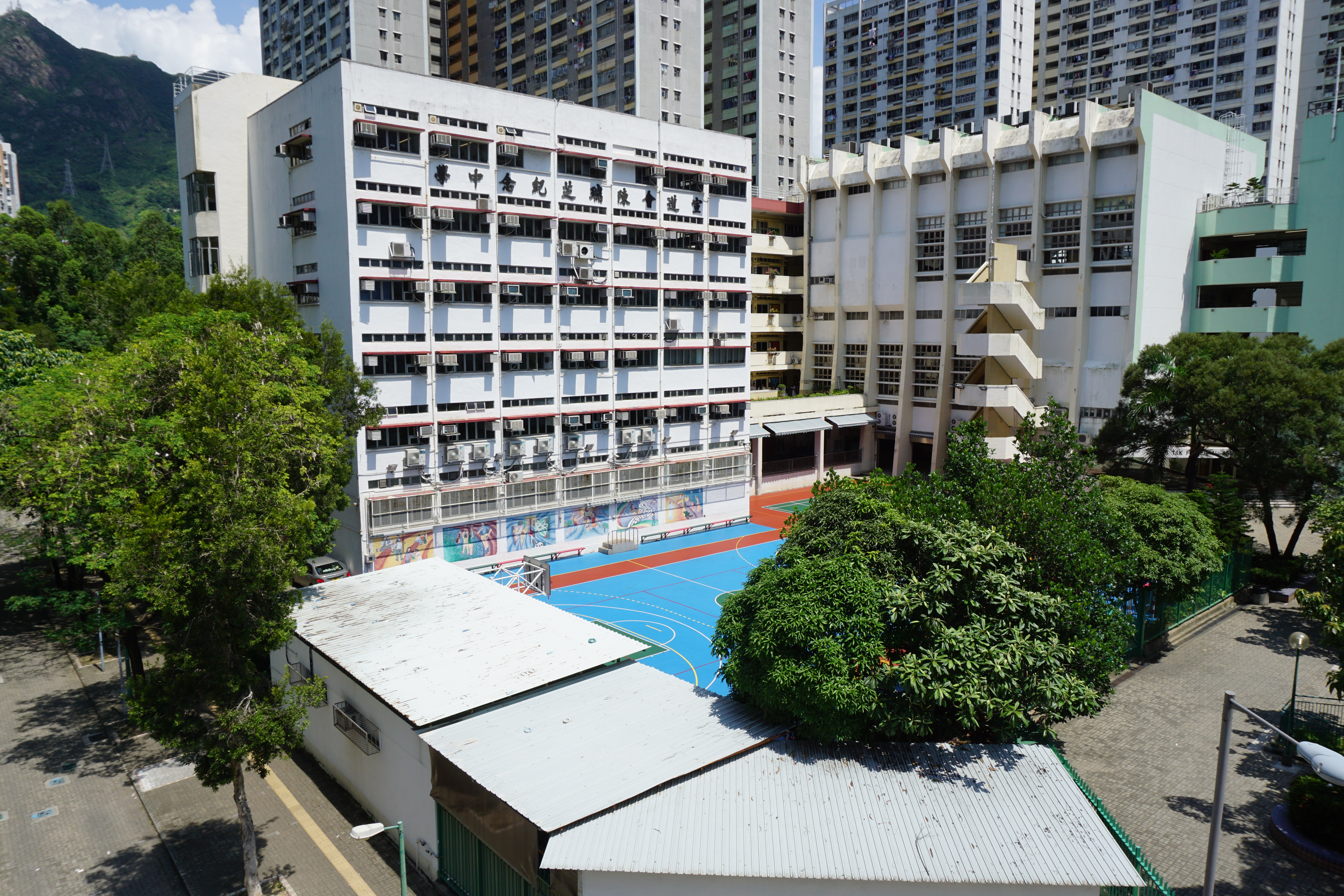 Christian Alliance S C Chan Memorial College in Tuen Mun, Hong Kong.